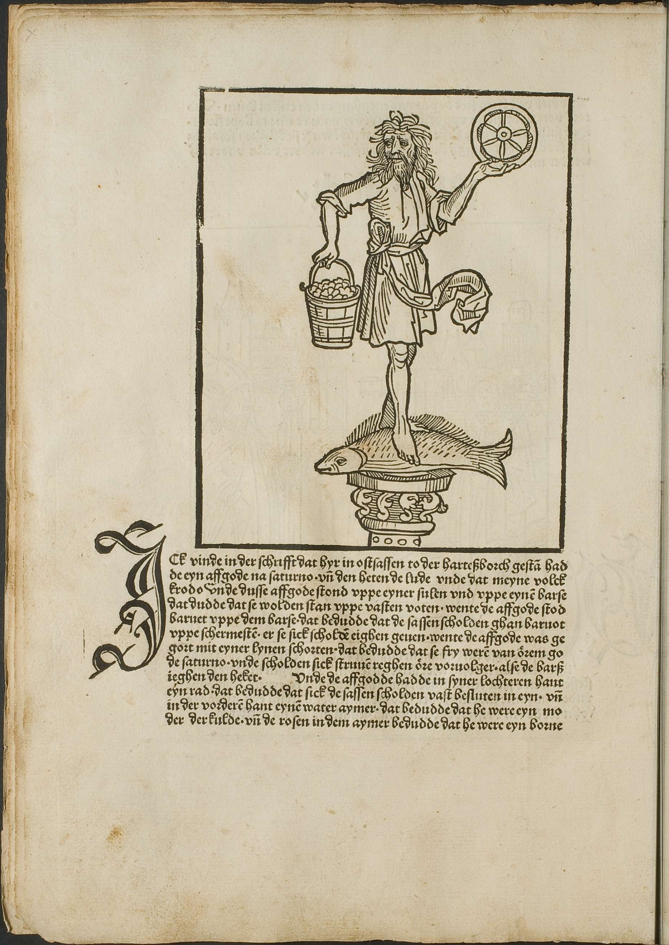 Illustration from the incunabulum: Cronecken der Sassen (The Chronicles of Saxony) printed by Peter Schöffer in Mainz.